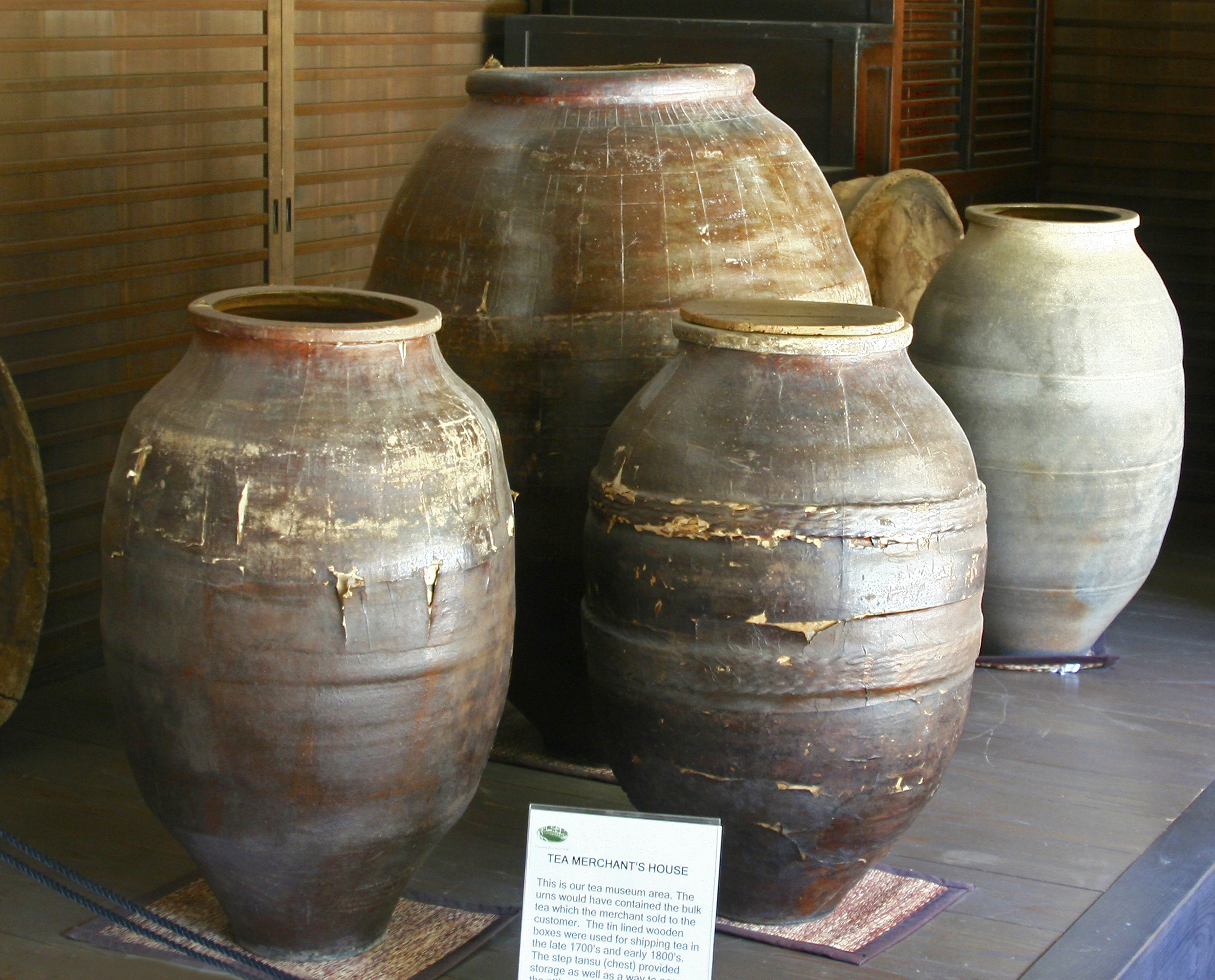 tea bins ). Shown to the left is a basket for harvesting tea. Picture taken at Hakone Gardens, Saratoga, California, USA.